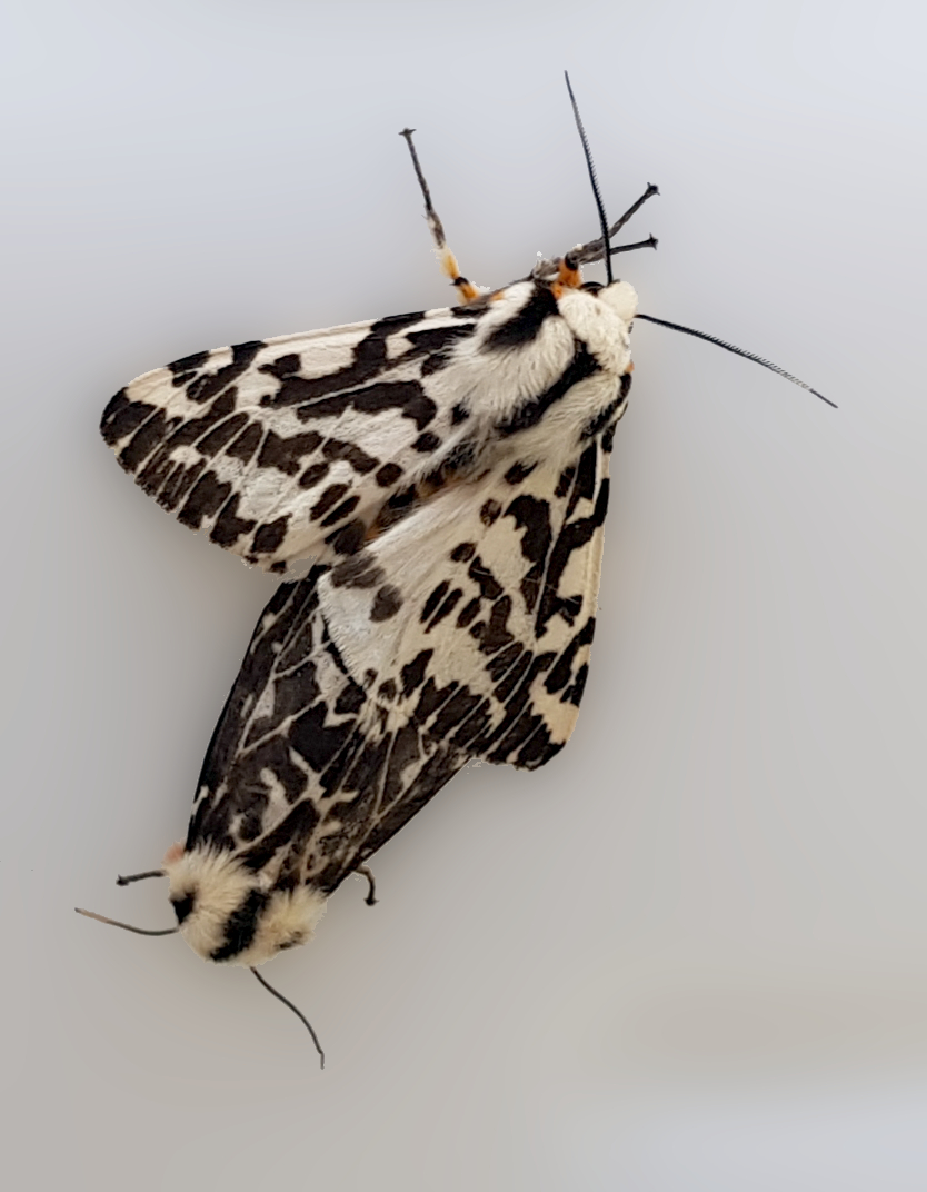 Two Black and White Tiger Moths (Ardices glatignyi) mating. Previously known as Spilosoma glatigny.